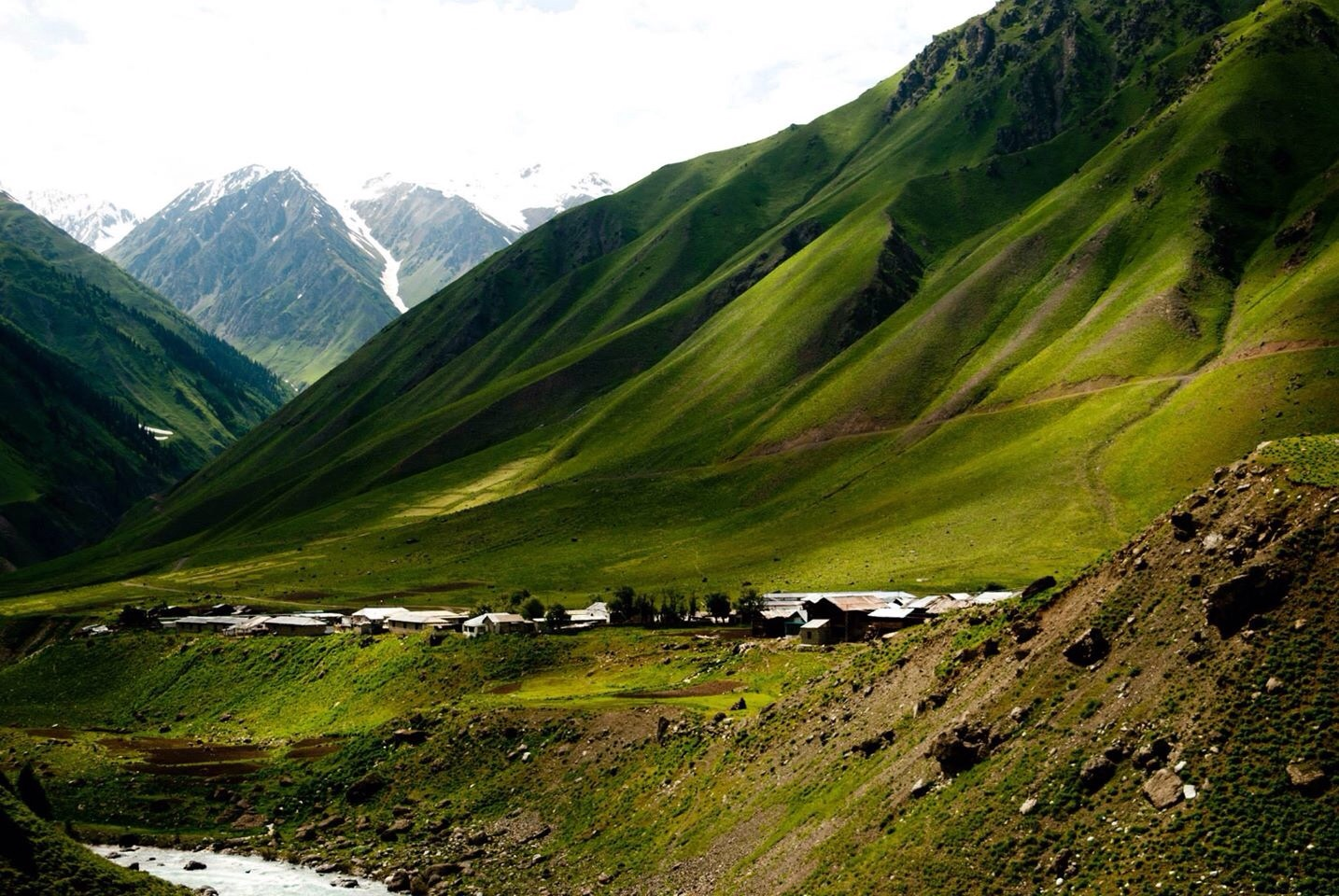 By far the most beautiful valley I've visited in all of Northern pakistan